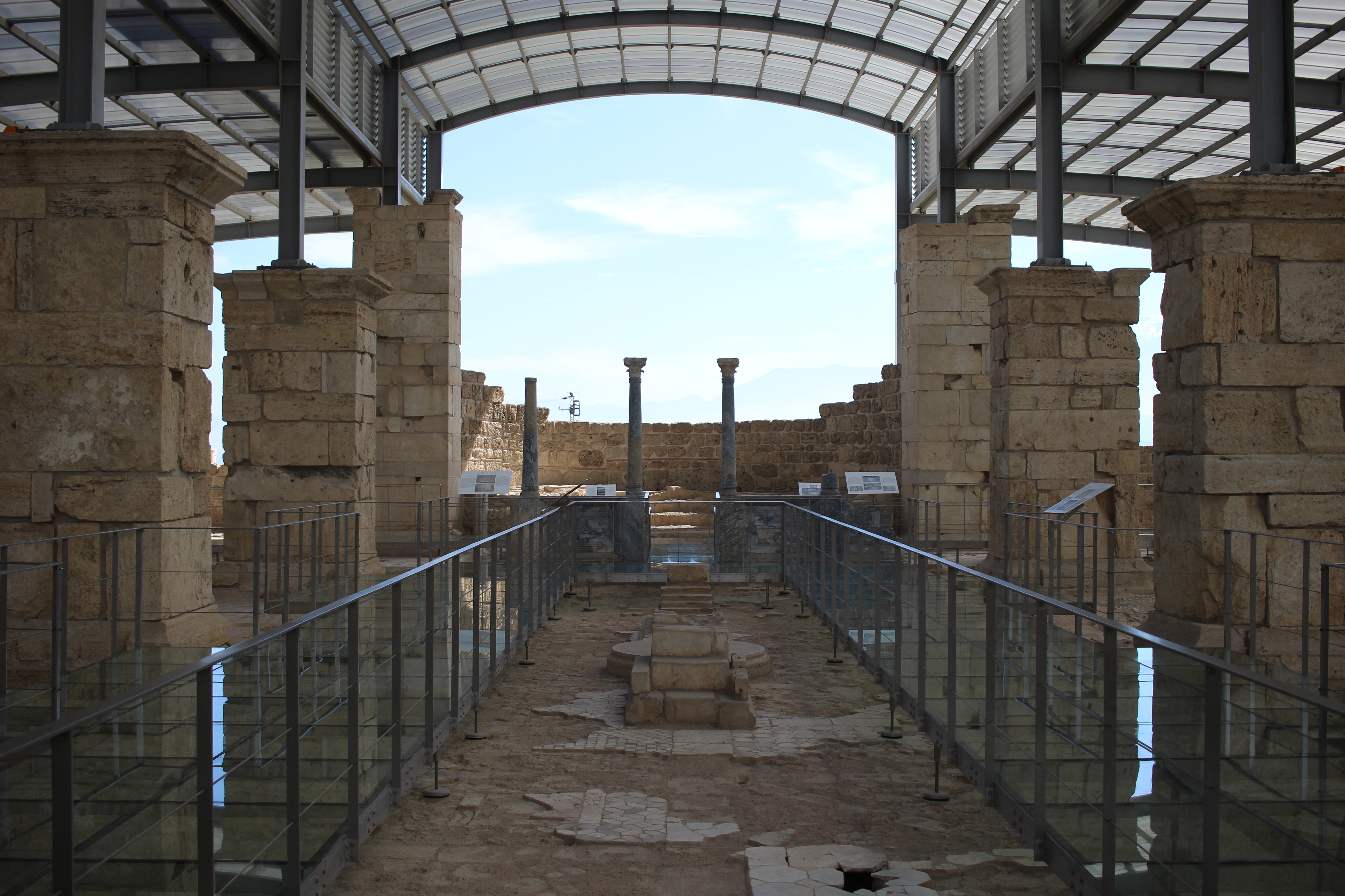 Inside The Church of Laodikeia, Laodicea on the Lycus, Denizli, Turkey